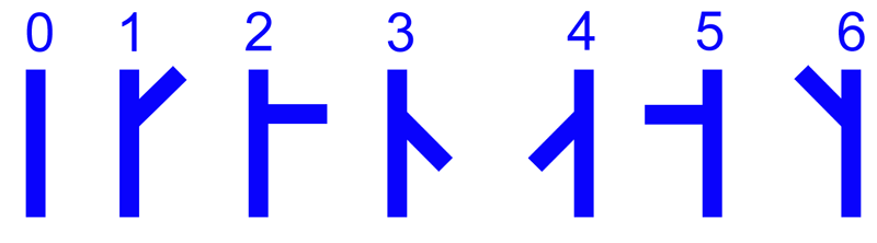 Code used by the Prussian Optical Telegraph between Berlin and Koblenz